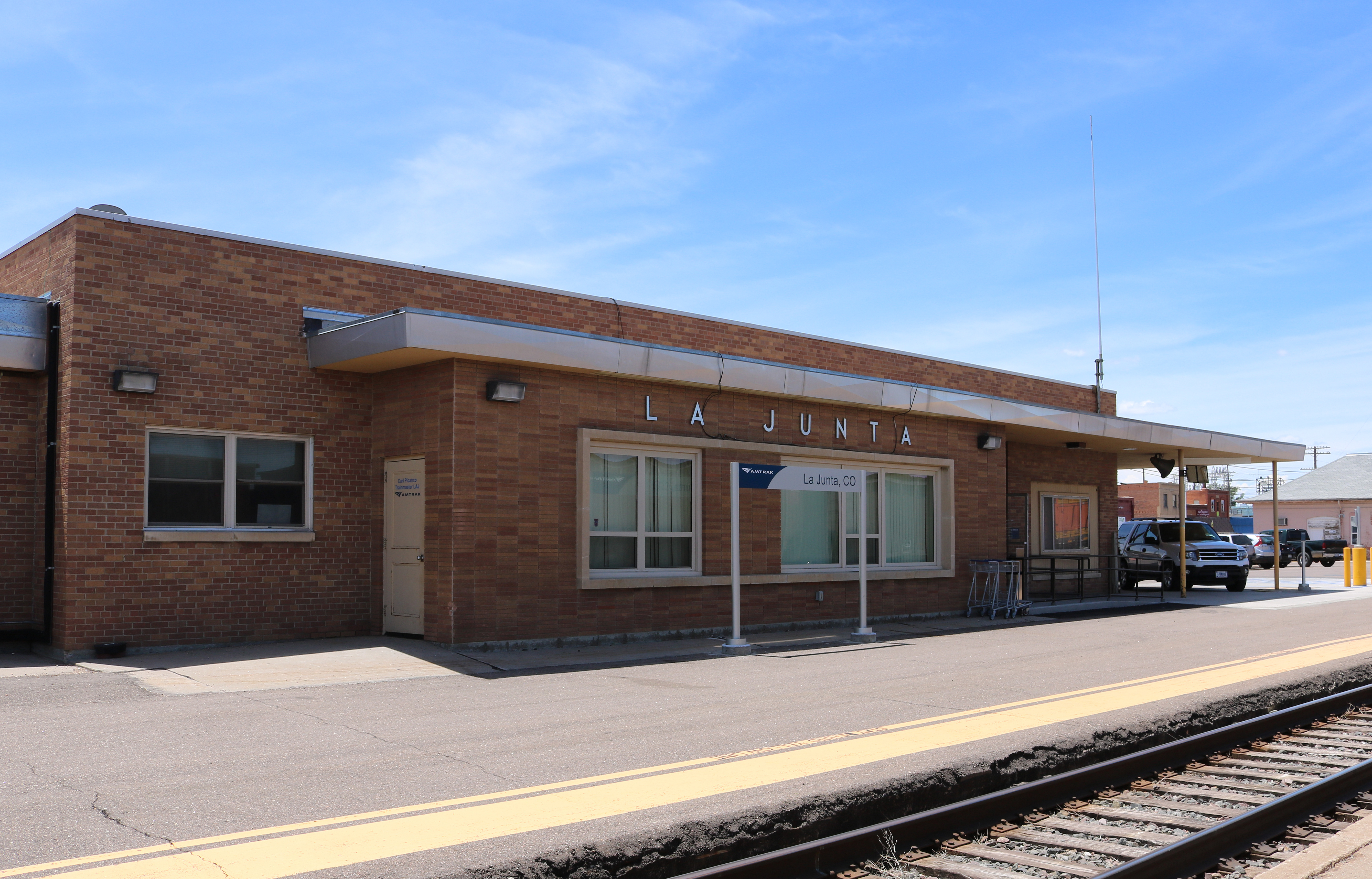 The La Junta, Colorado Amtrak station, located at 1 West 1st Street in La Junta, Colorado.